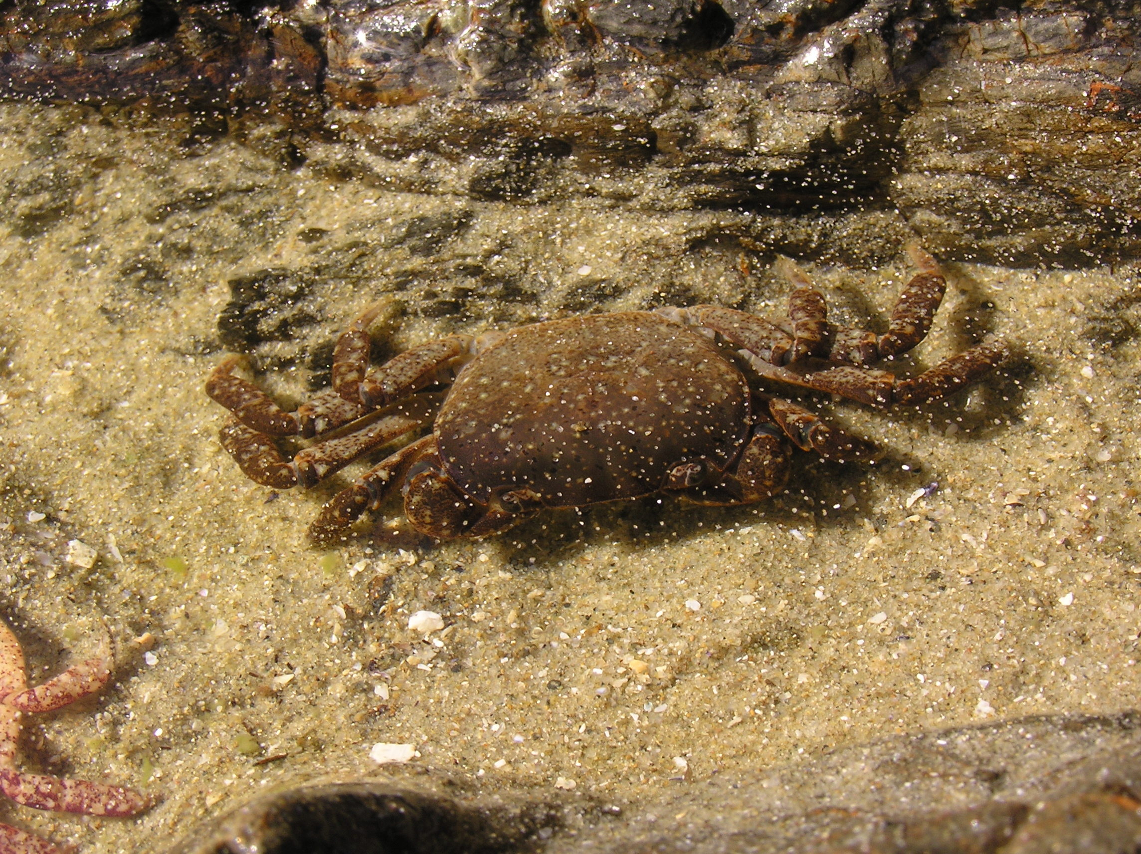 Found in a tidal rock pool, Scorching Bay, Wellington, New Zealand.